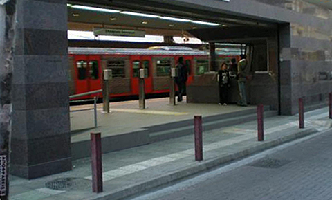 Platform of Perissos metro station, ISAP, Athens